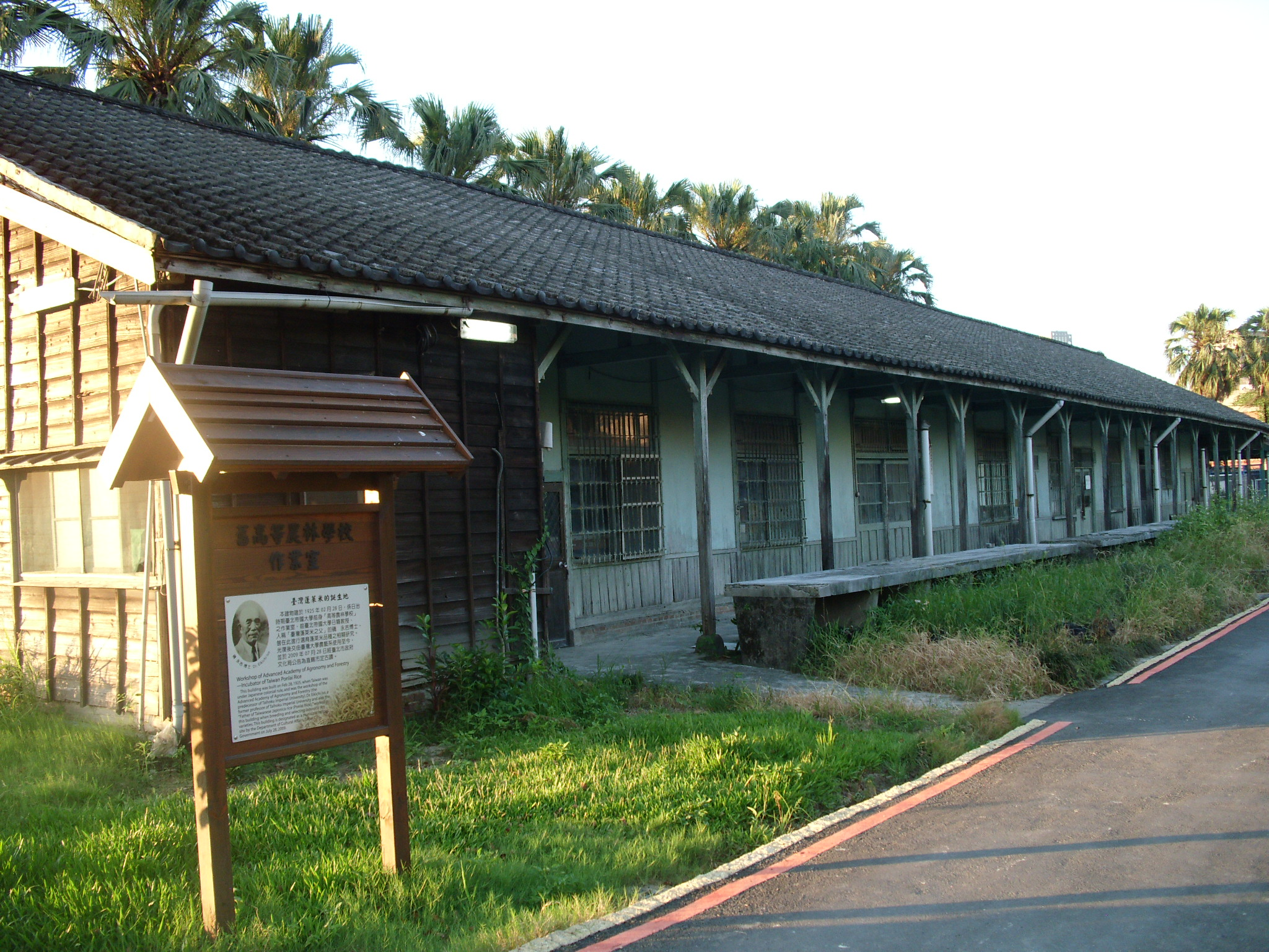 Workshop of Advanced Academy of Agronomy and Forestry ---Incubator of Taiwan Ponlai Rice